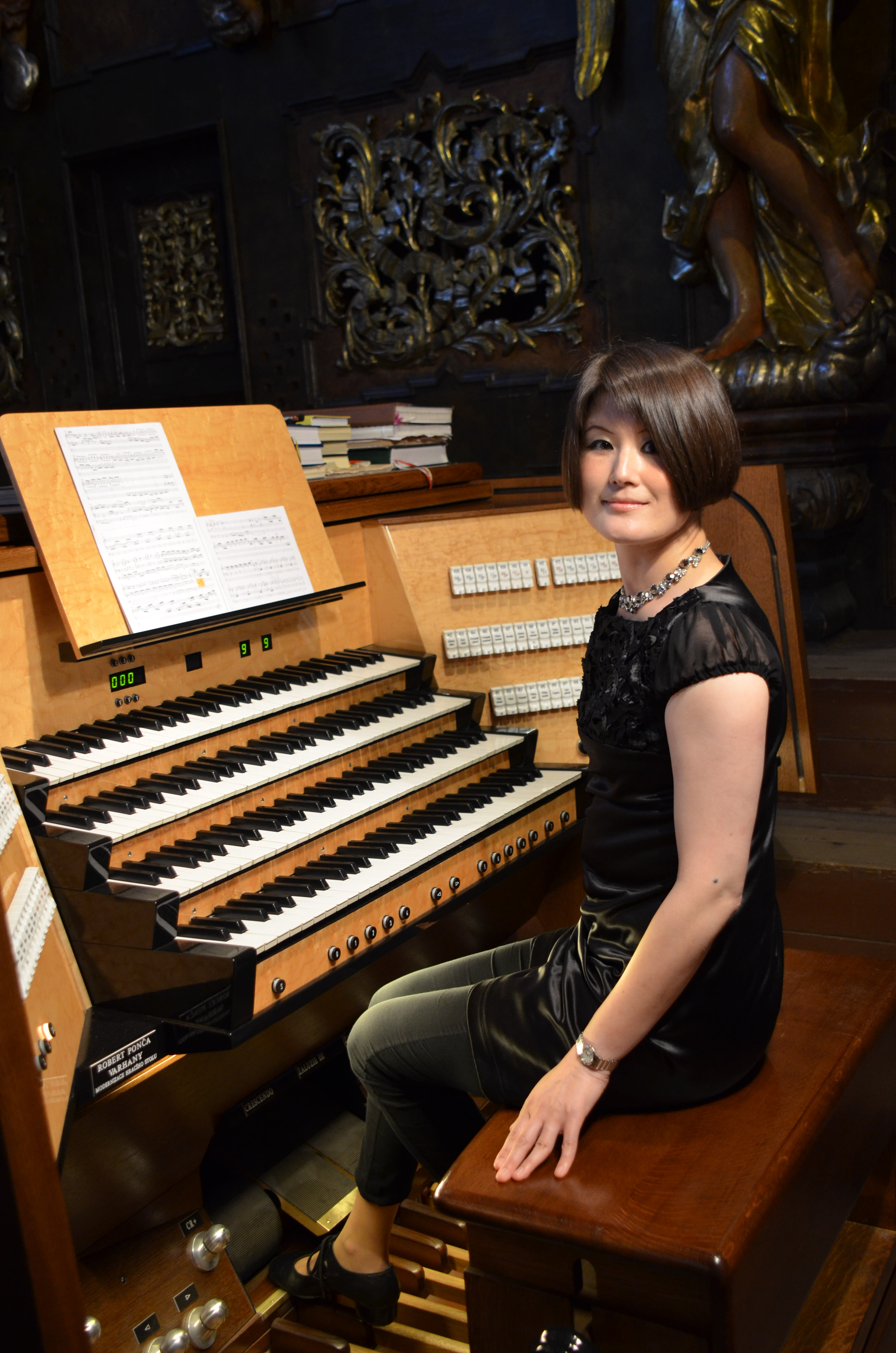 Japanese artist Eiko Maria Yoshimura in the church of Saint James, Prague, Czech Republic.